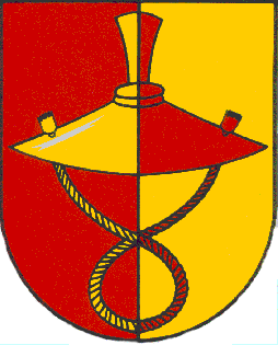 Granted 30 August 1988. The hat was used as arms by the medieval Lords of Heere, known since 1293. The division of the shield symbolises the two villages, Klein- and Großheere, which now form one municipality. This is again symbolised, the two villages now live 'under one hat'. The division also refers to the fact that the village historically has been on the border between the Duchy of Braunschweig and the State of Hildesheim. The colours are those from the Lords of Heere as well as (partly) from Braunschweig and Hildesheim.